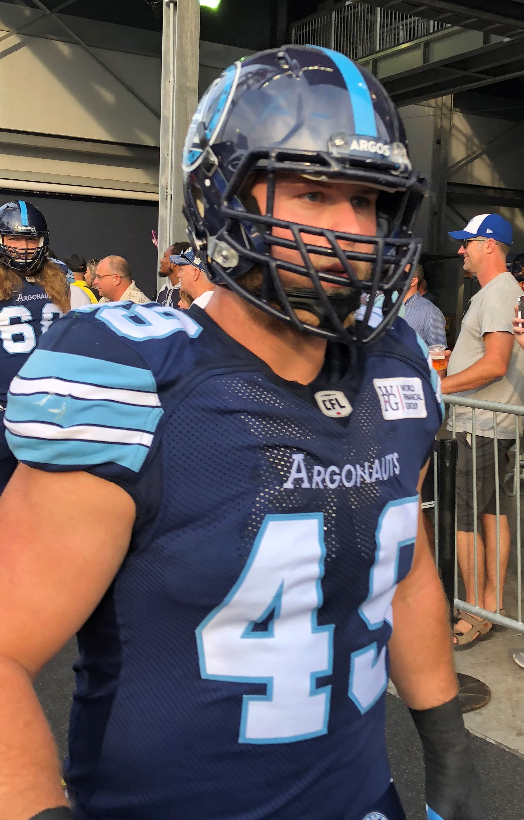 Jeff Finley, Defensive Lineman for the Toronto Argonauts.